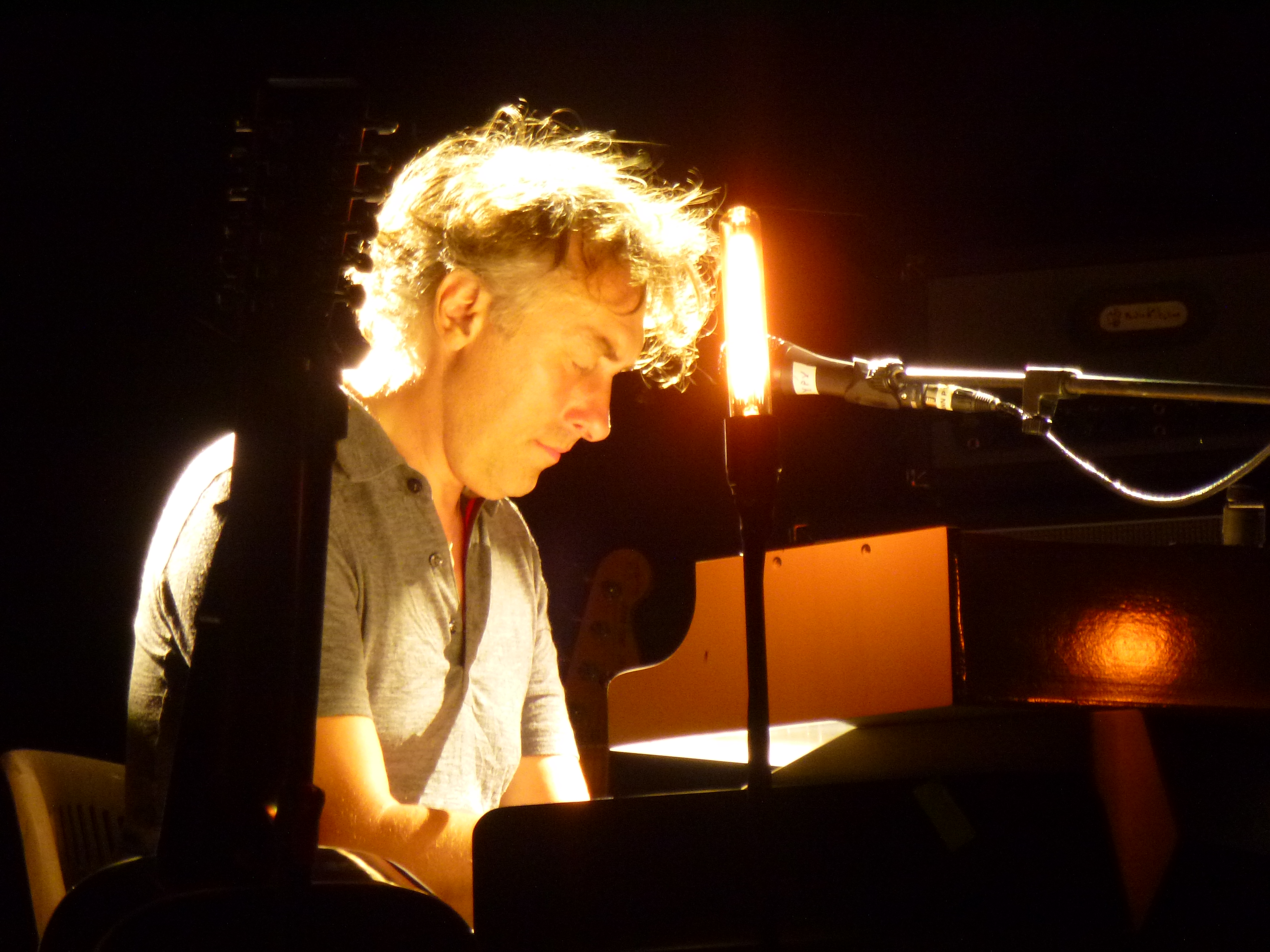 Infinity tour 2014 - Prato (FI)